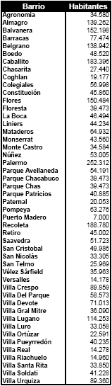 Inhabitants of Buenos Aires City by Neighbourhood